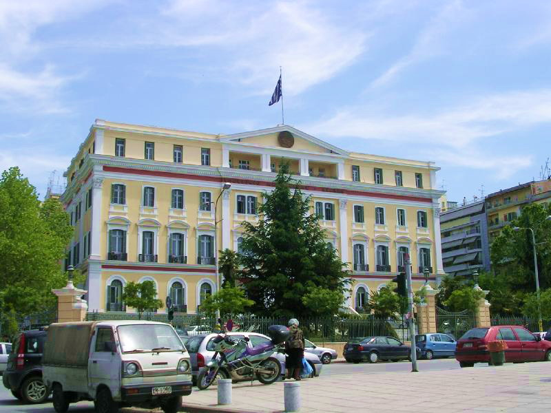 The Ministry of Macedonia-Thrace in Thessaloniki, Greece. Photo taken in 2006.